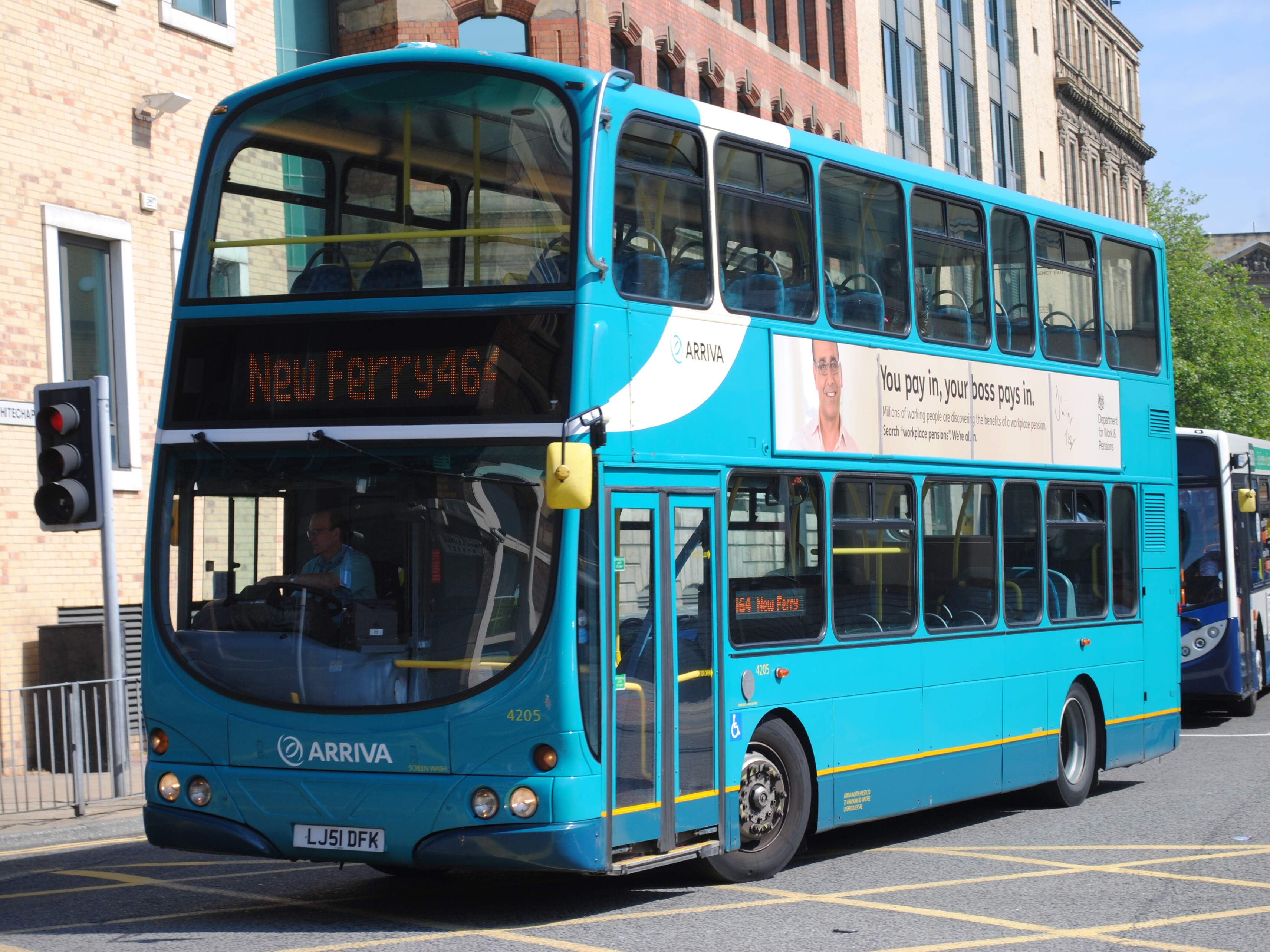 Volvo B7TL Wright Eclipse Gemini. on rare 464 Liverpool - New Ferry route normally used Volvo B5L Wright Gemini 2 Hybird